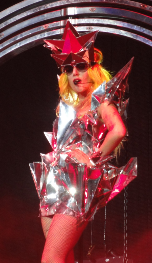 Lady Gaga performing "Bad Romance" on The Monster Ball Tour.